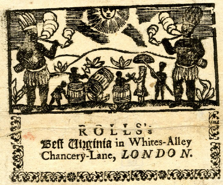 "Rolls's Best Virginia in Whites-Alley, Chancery-Lane, London," tobacco advertisement showing two Indians smoking pipes with a view between them of black children working on a tobacco plantation, while a white man speaking to one of them is shielded from the sun by a parasol held by another Indian. Woodcut. 61 mm x 74 mm. Courtesy of the British Museum, London.